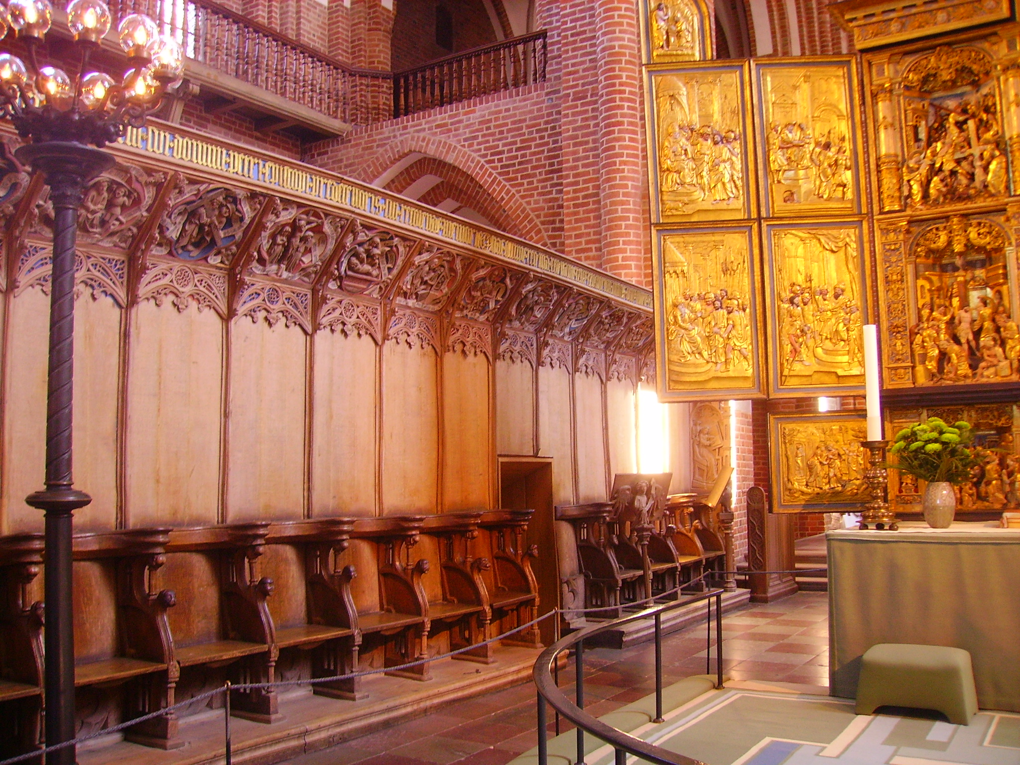 Choir stalls of the Cathedral, Roskilde